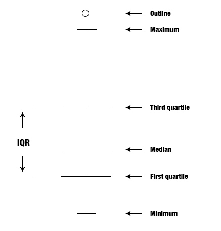 Box plot description